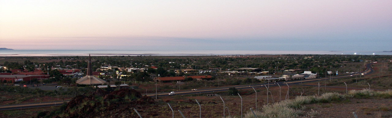 Karratha, Western Australia at dusk.